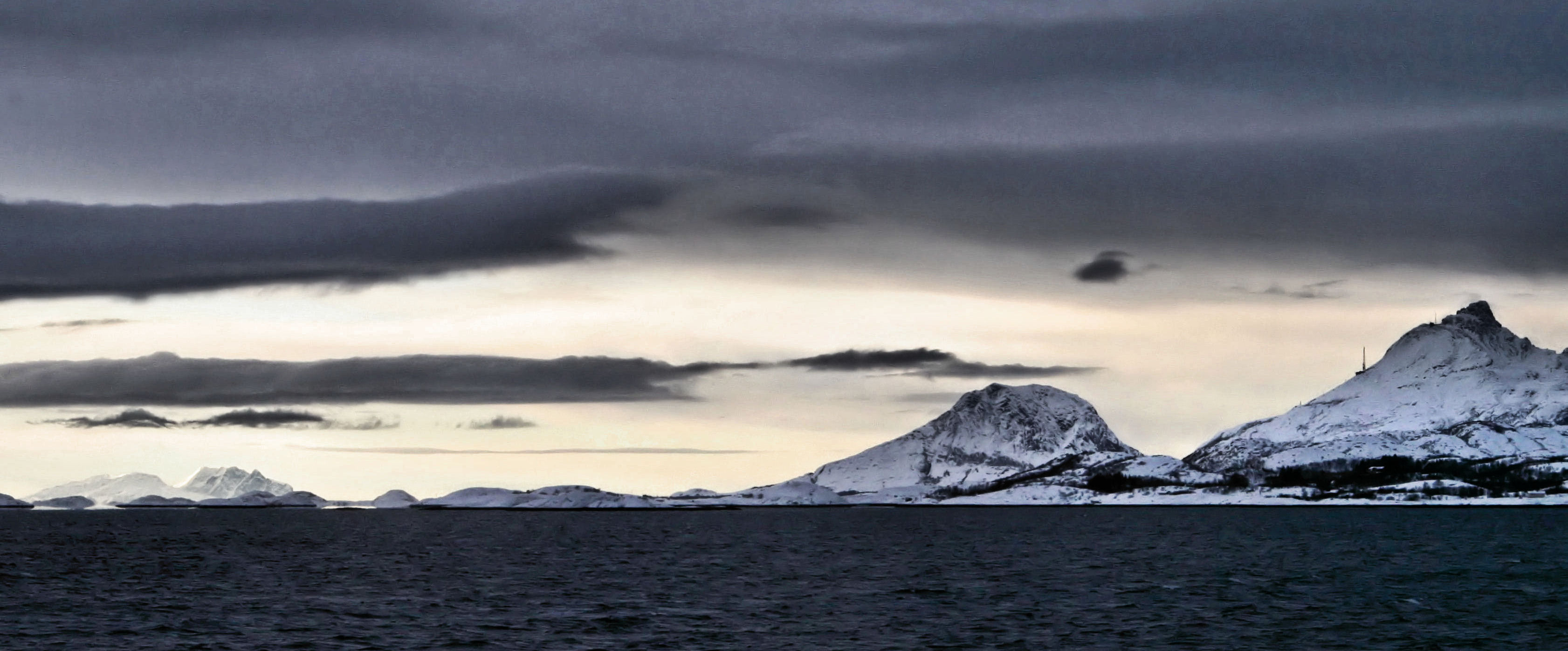 Hestmannøya island on the Polar Circle, Norway. Winter 2005-2006